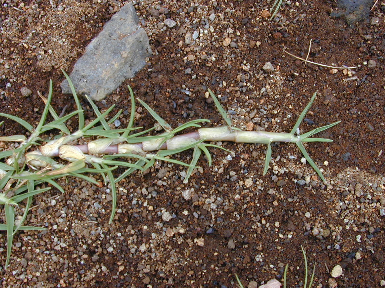 Pennisetum clandestinum (growing tip). Location: Maui, Polipoli